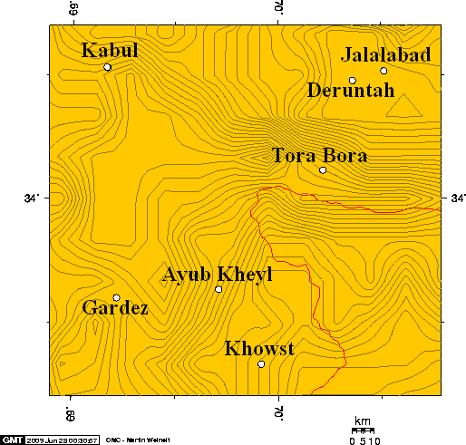 This map shows some cities in Eastern Afghanistan, and the village oa Ayub Kheyl. Ayub Kheyl is the site of a skirmish, on 2002-07-27, where Sergeant Christopher Speer was mortally wounded, and Sergeant Layne Morris and Canadian youth Omar Khadr were wounded. Khadr faced charges before a Guantanamo military commission for the killing of Sergeant Speer.